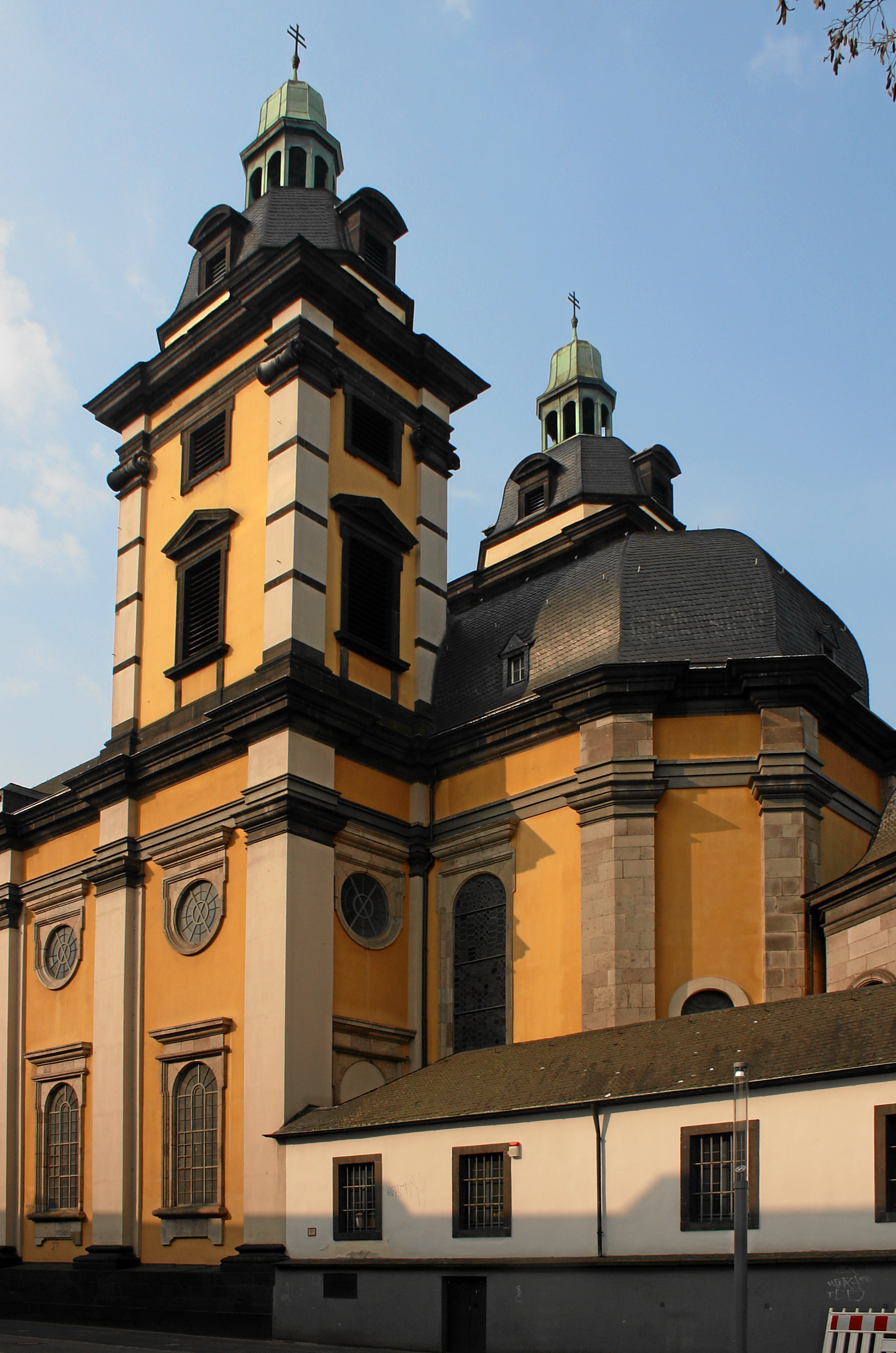 Düsseldorf, Germany. Roman-catholic church Saint Andreas, exterior view from East.